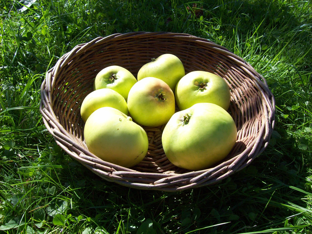 Oranie, an apple cultivar.